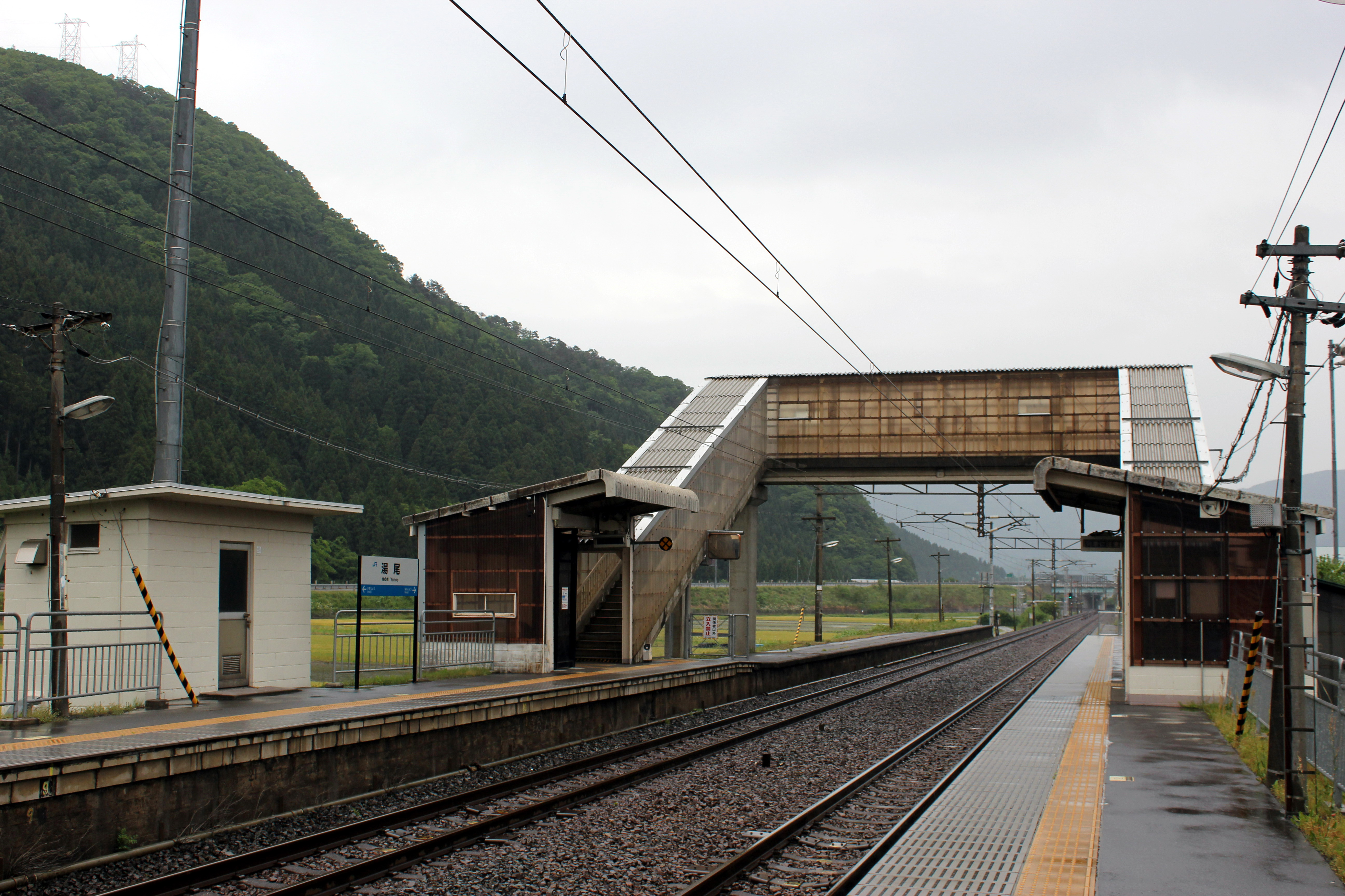 Platforms and overbridge at JR West Hokuriku Main Line Yunoo Station